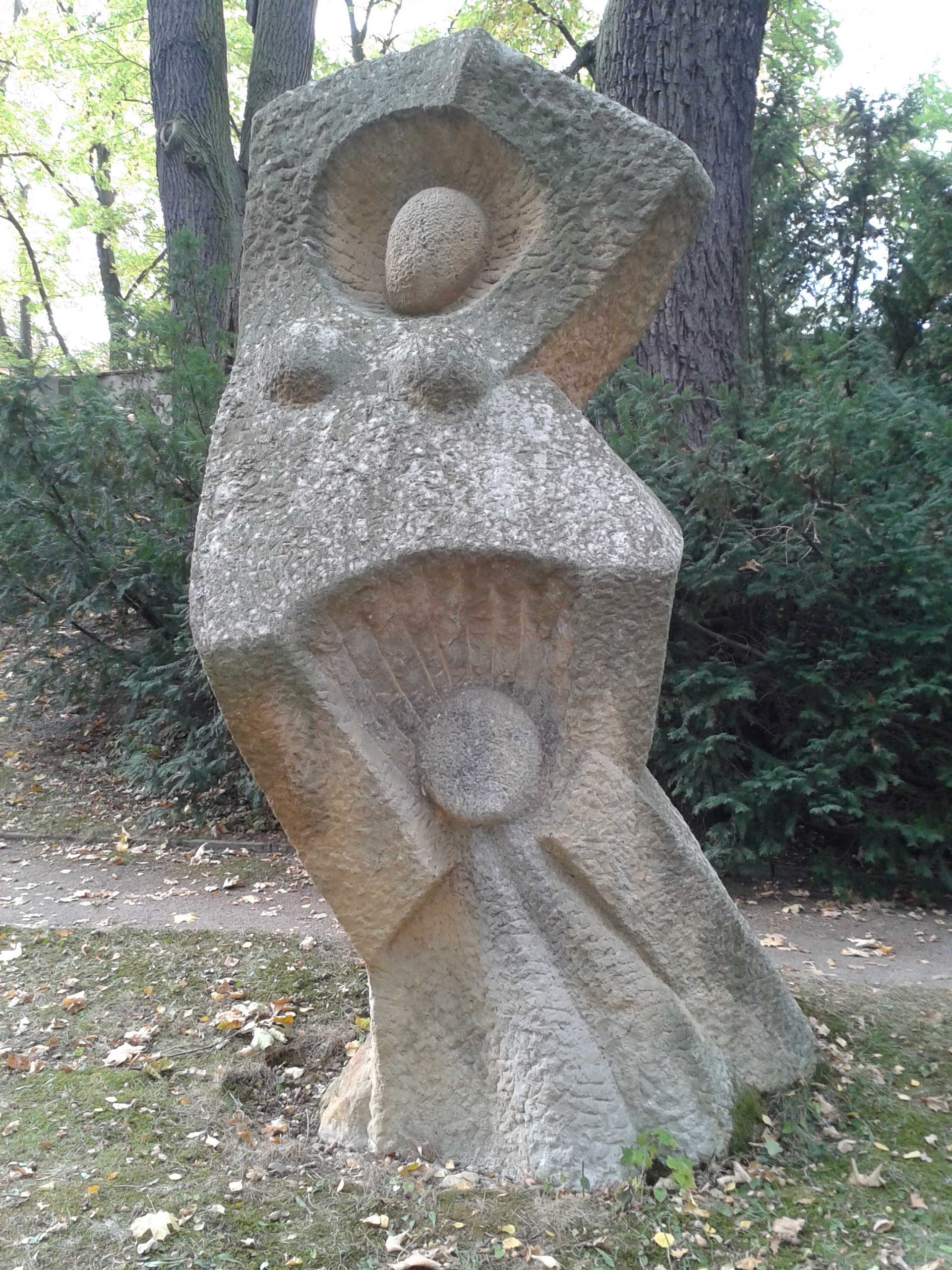 Statue in a public space; Location: freely accessible garden of the former summer residence of Karel Čapek in the Stará Huť (Old Hut) near the Dobříš town - called: "Čapkova Strž"; Author of the work: Czech sculptor Karel Kučera; Title of work: "Mother and Child"; Year of creation: 1965 to 1968. The work was inspired by the motif found in paintings of Josef Čapek.